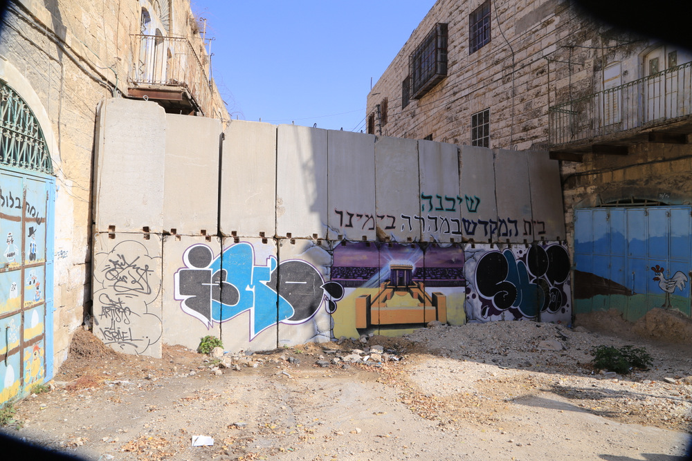 Description from B'Tselem source: "Ghost town: A tour of downtown Hebron, 19 Nov. 2013: Over the past decade downtown Hebron has become a ghost town. Israel has enacted a strict segregationist policy there, enforced by imposing stringent restrictions on Palestinian pedestrians and vehicles, closing shops and businesses, and not safeguarding Palestinians from settler violence. As a result, many residents have left their homes and entire neighborhoods located near homes of Israeli settlers are entirely deserted. Hebron’s markets and main streets have grown desolate. Those individuals who have not left downtown Hebron are among the weakest and most marginalized members of society. With no option of moving away, they regularly encounter both an increased and more violent presence of Israeli security forces as well as settler violence. Finally, they must face their isolation from the rest of the city of Hebron. We took a group of American Young Judeans on a tour of downtown Hebron. This was the first time most of them had been to downtown Hebron." Photo caption from source: "Cement wall built by the military to divide a-Shuhada St. from the Qasbah of Hebron."